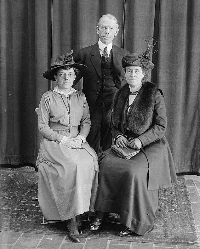 Photograph shows seated from left: illustrator Frances Isabelle (Lockwood) Brundage (1854-1937); Marian MacDowell (1857-1956), wife of composer Edward MacDowell and founder of the MacDowell Colony; and Arthur Finley Nevin (1871-1943), a professor of music at the University of Kansas. Brundage and Nevin were speakers and MacDowell was an organizer of the National Conference on Community Music at the Hotel Astor in New York City, May 31-June 1, 1917.